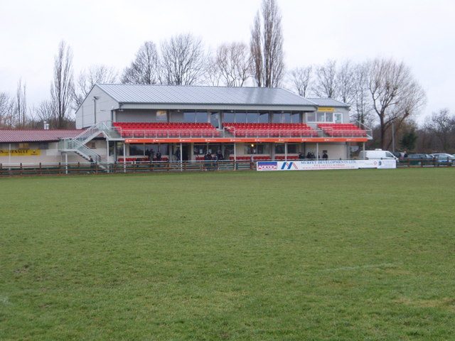 Pavilion Cambridge RFCThe pavilion with supporters balcony over looking the main pitch.